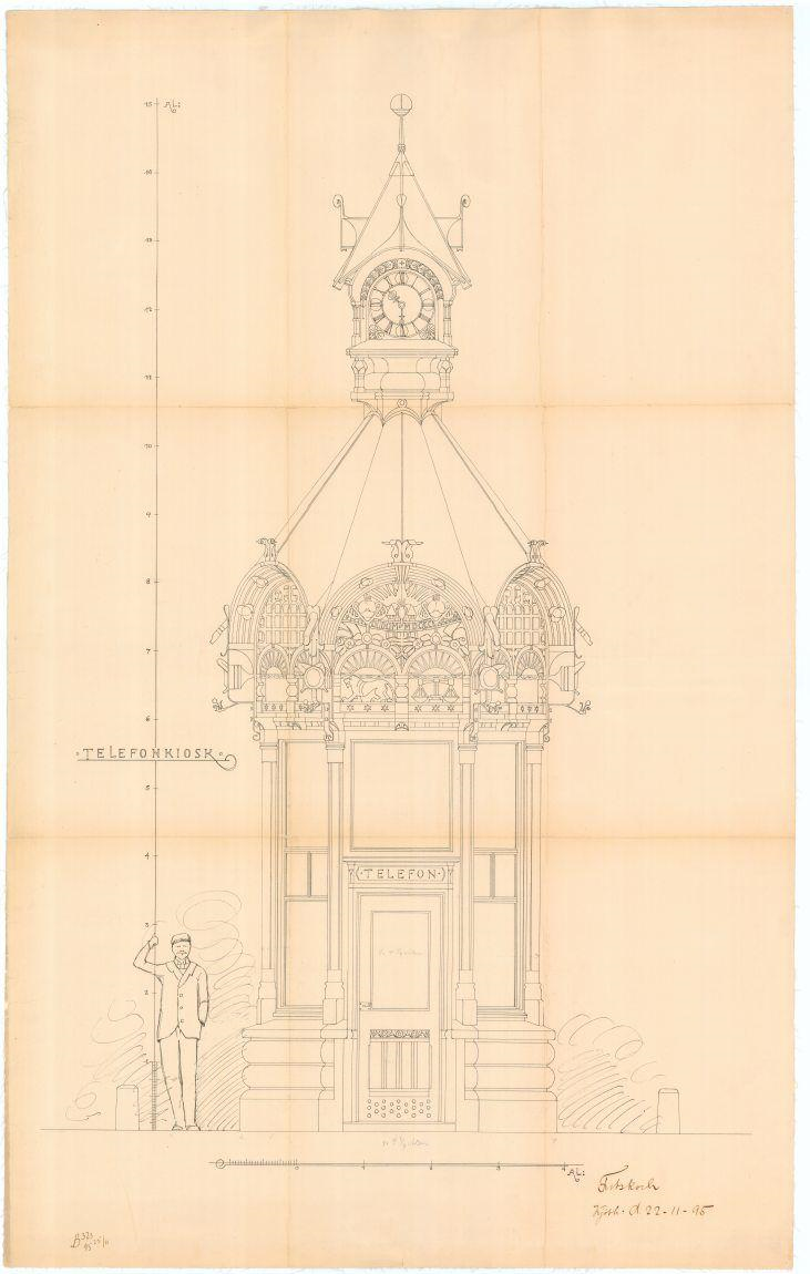 Rendering for telephone kiosks in Copenhagen, Denmark